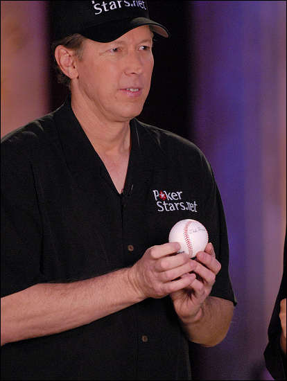 Orel Hershiser at the National Heads-Up Poker Championship